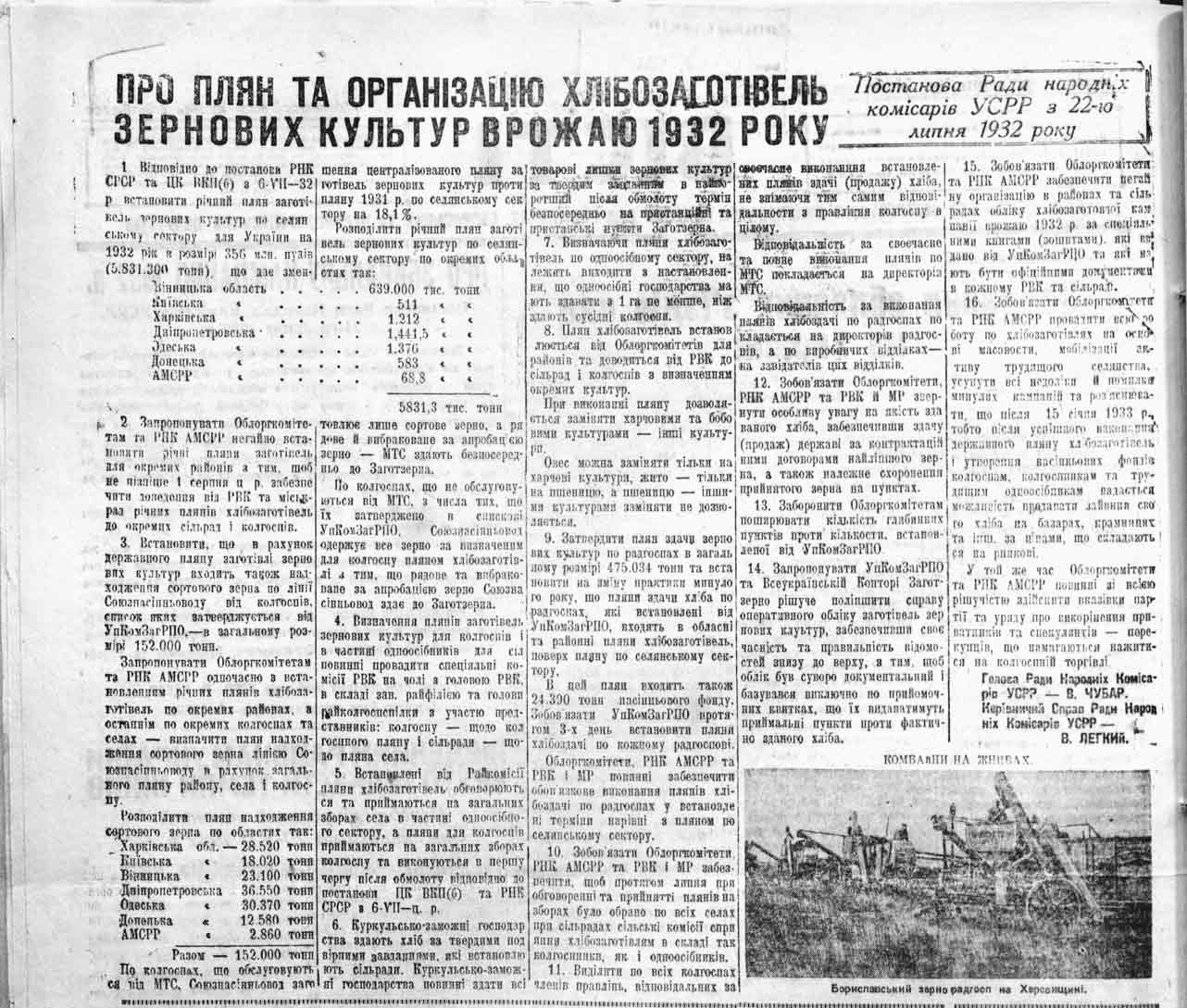 Article about plan for grain collection in Ukrainian SRR for 1932 (first revision from 3) Prewar publication by a newspaper, Soviet legal entity